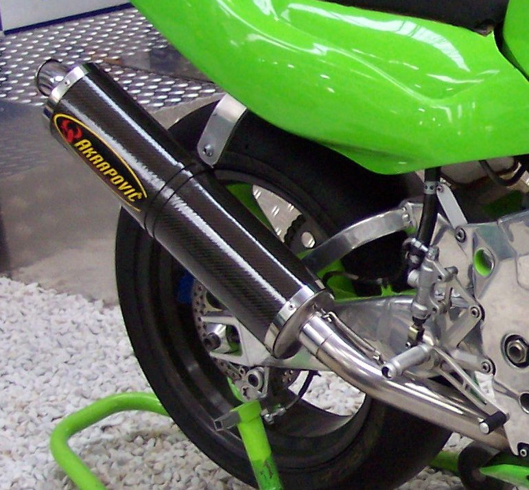 Akrapovic exhaust on a Kawasaki ZXR 750 RR.